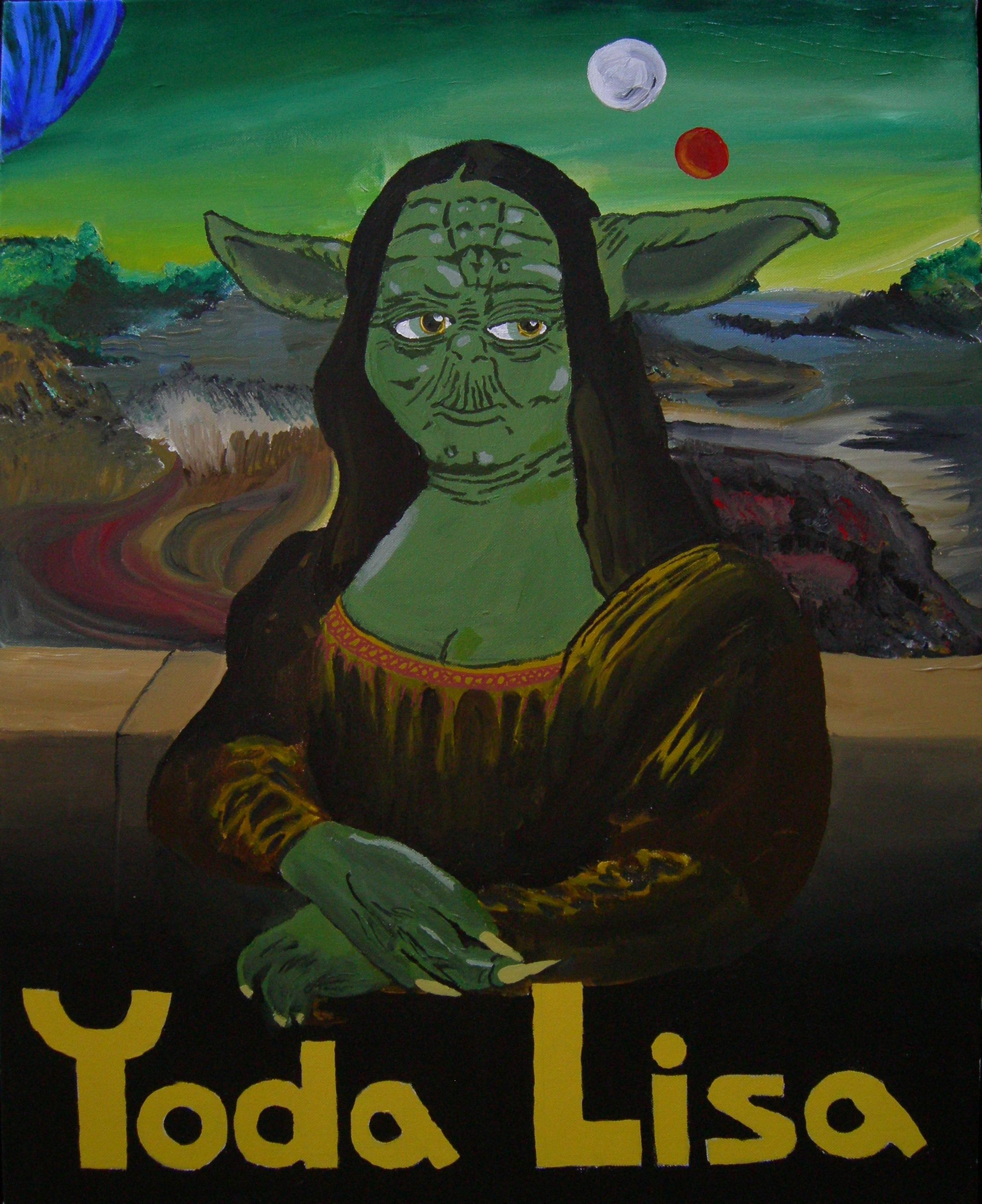 Yoda Lisa by tony Juliano, 2005.